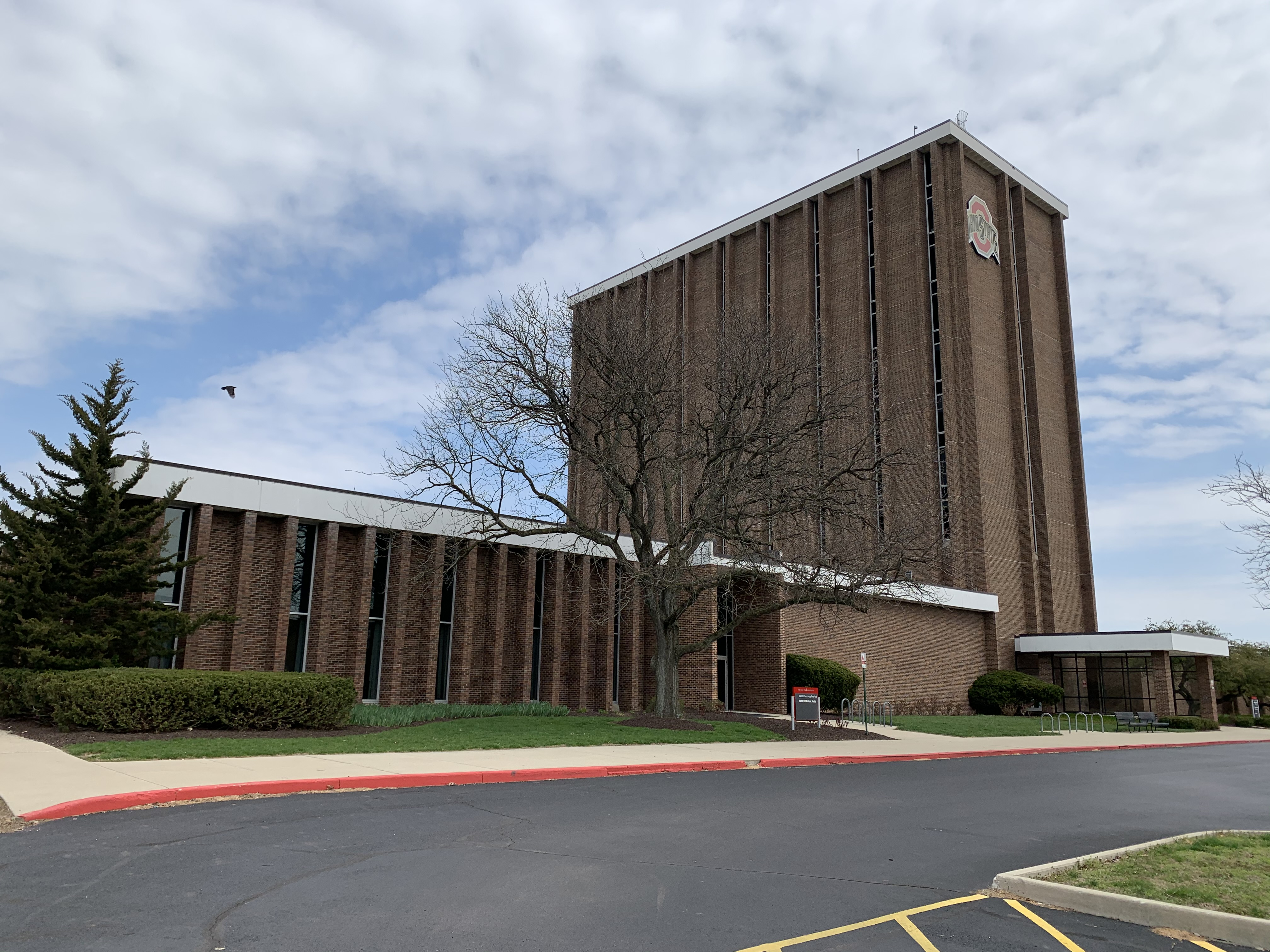 The Fawcett Center for tomorrow in April 2020. The building houses event space, athletic offices, and the headquarters of WOSU.